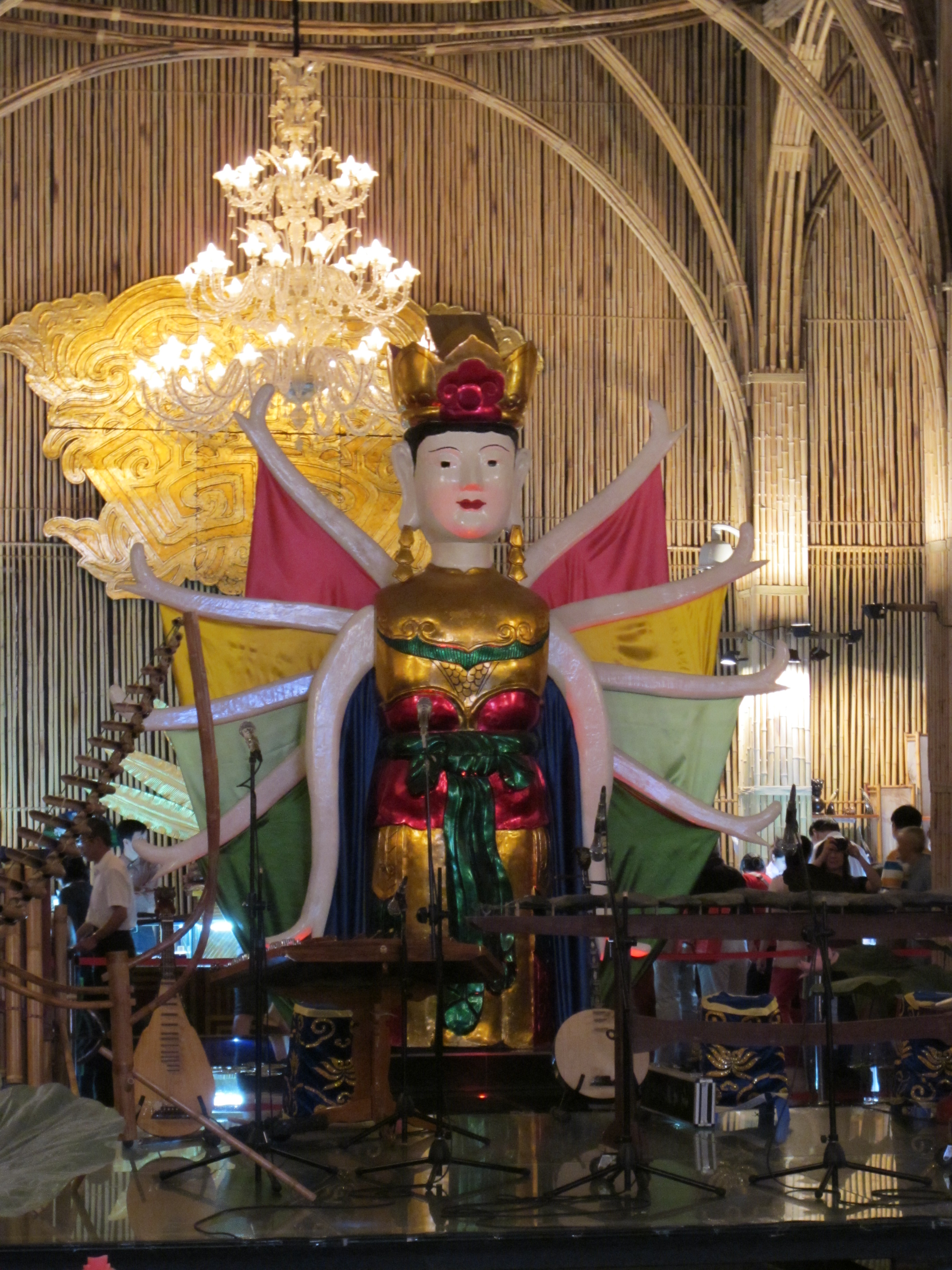 Vietnam Pavilion of Expo 2010